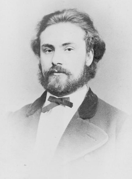 The Norwegian composer Johan Svendsen (1840—1911)